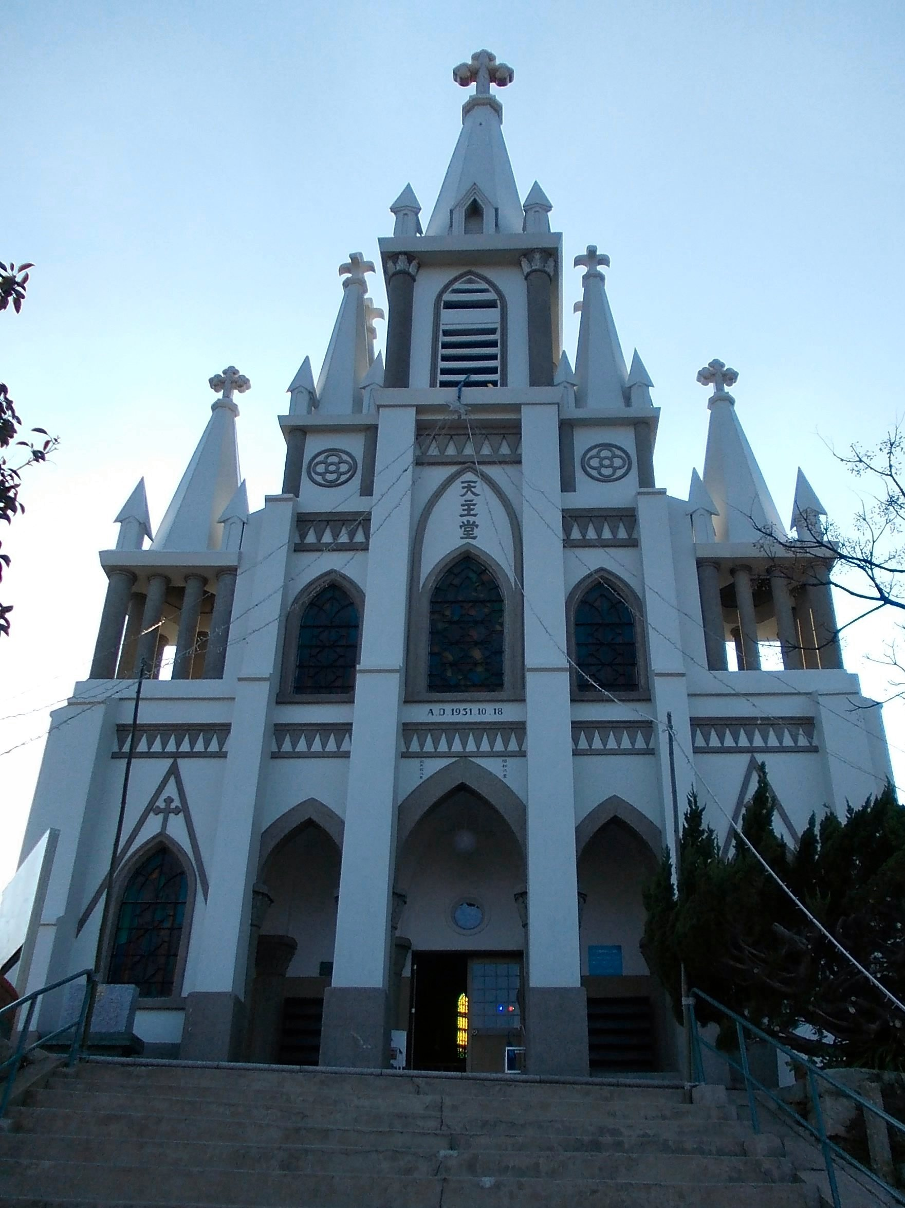 Magome Catholic Church, also known as St.Michael's Church, is located in the former town of Iojima, now part of the city of Nagasaki, Japan. The building was registered as Tangible Cultural Properties by Japanese Government.